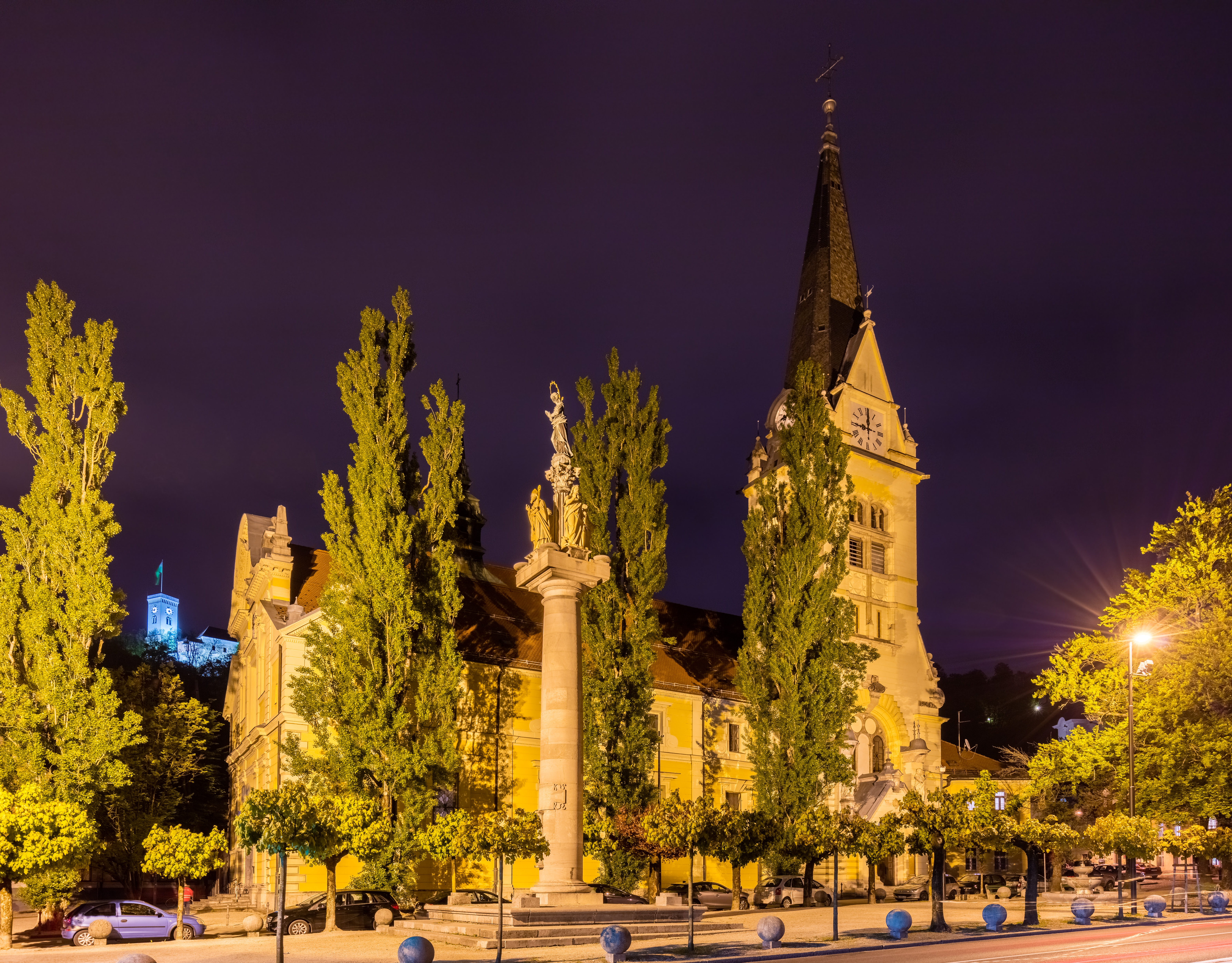 St. James's Parish Church, Ljubljana, Slovenia